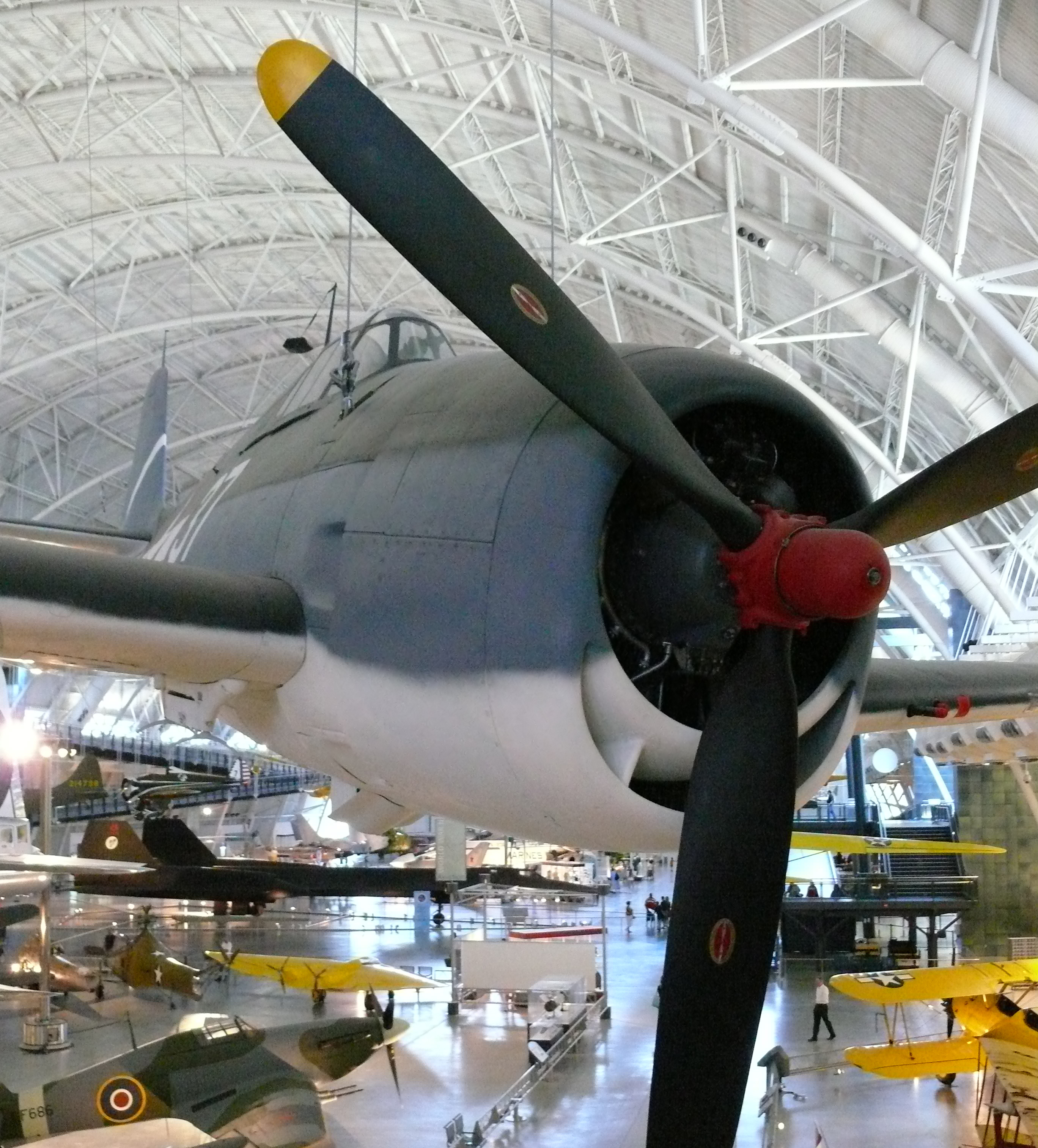 Hellcat in the Steven F. Udvar-Hazy Center, Chantilly, VA near Washington DC. The Grumman F6F Hellcat was a carrier-based fighter aircraft. The Hellcat and the Vought F4U Corsair were the primary USN fighters during the second half of World War II.